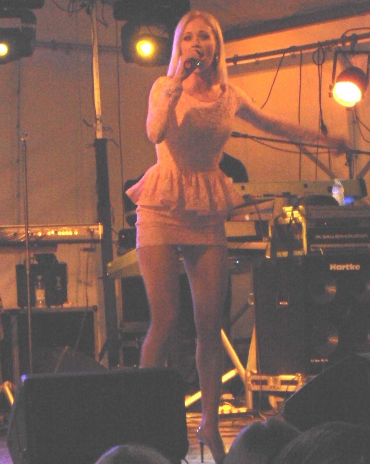 Croatian singer Jelena Rozga